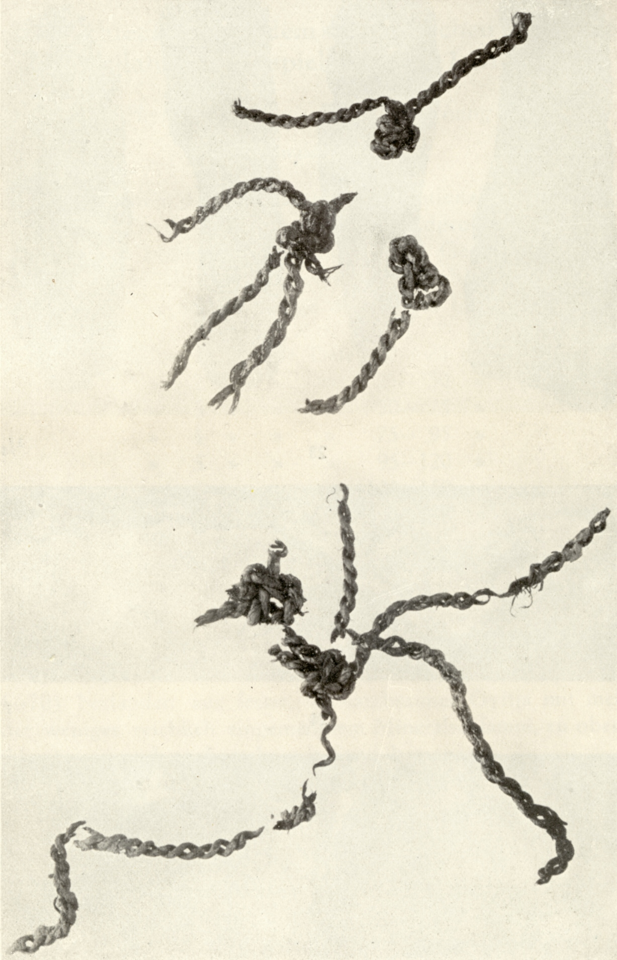 Some of the remains of the Paleolithic Antrea net.